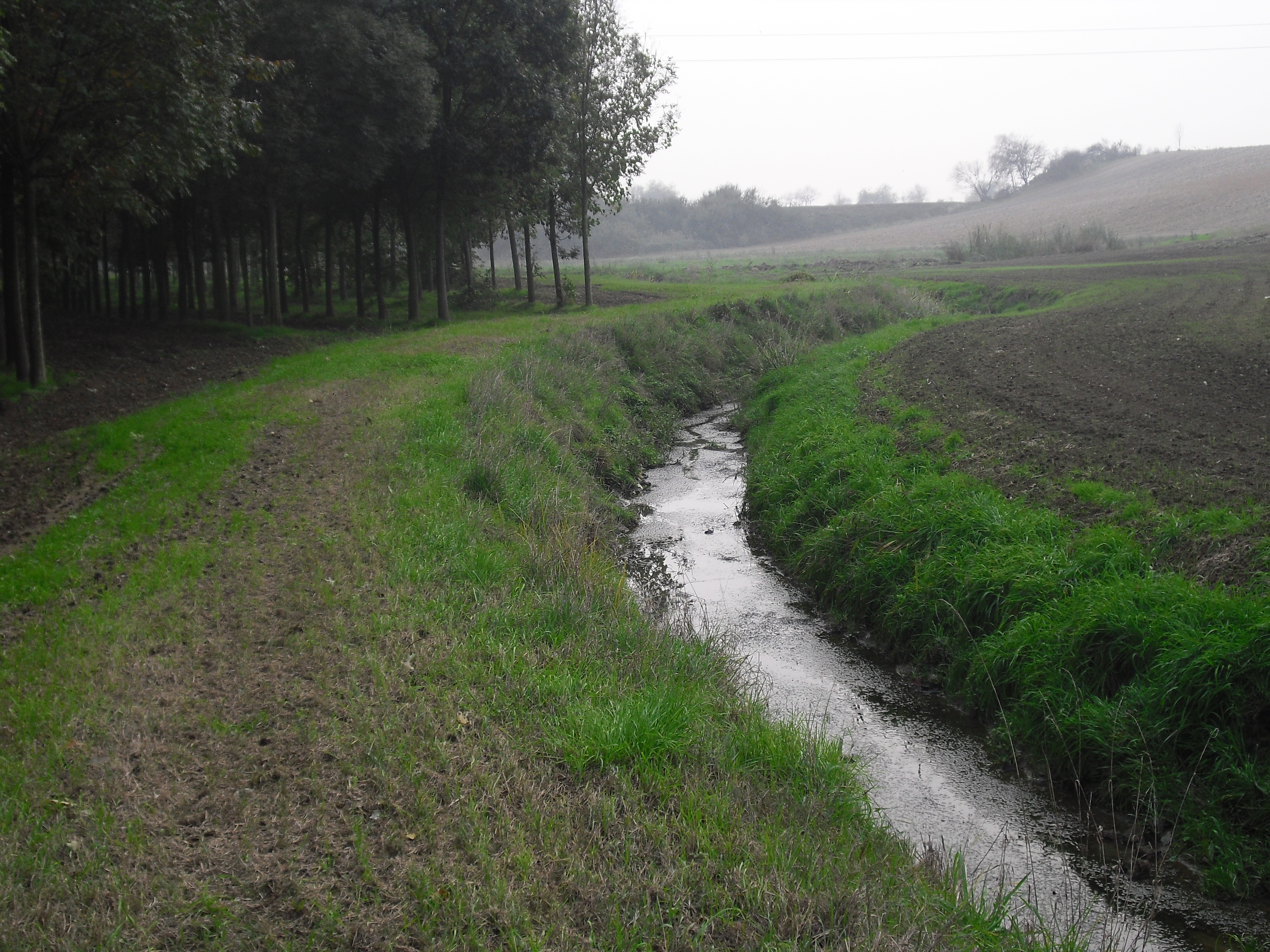 Arbogna creek near Novara